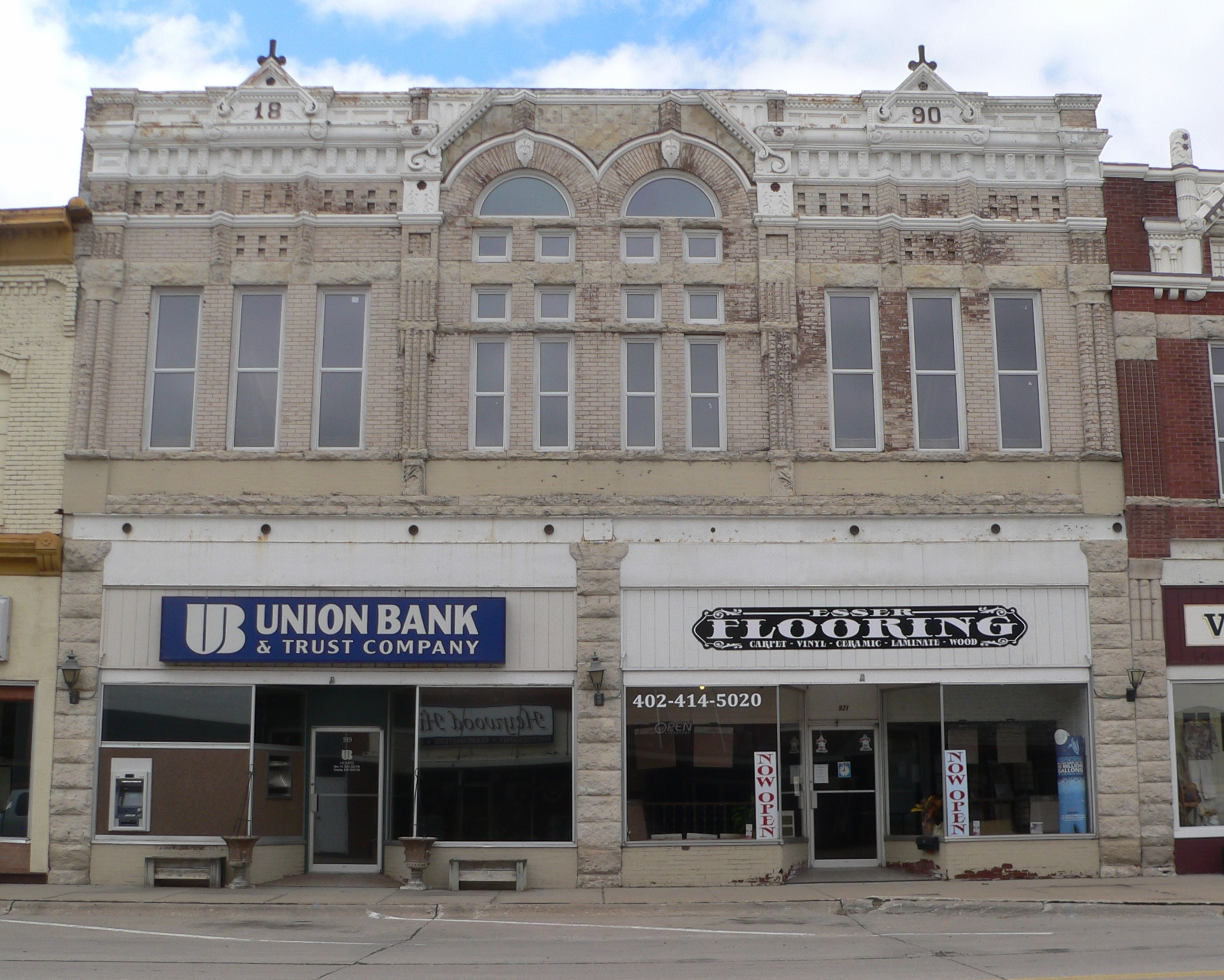 New Opera House, located on south side of Central Avenue east of J Street in Auburn, Nebraska. View from the north, across Central.